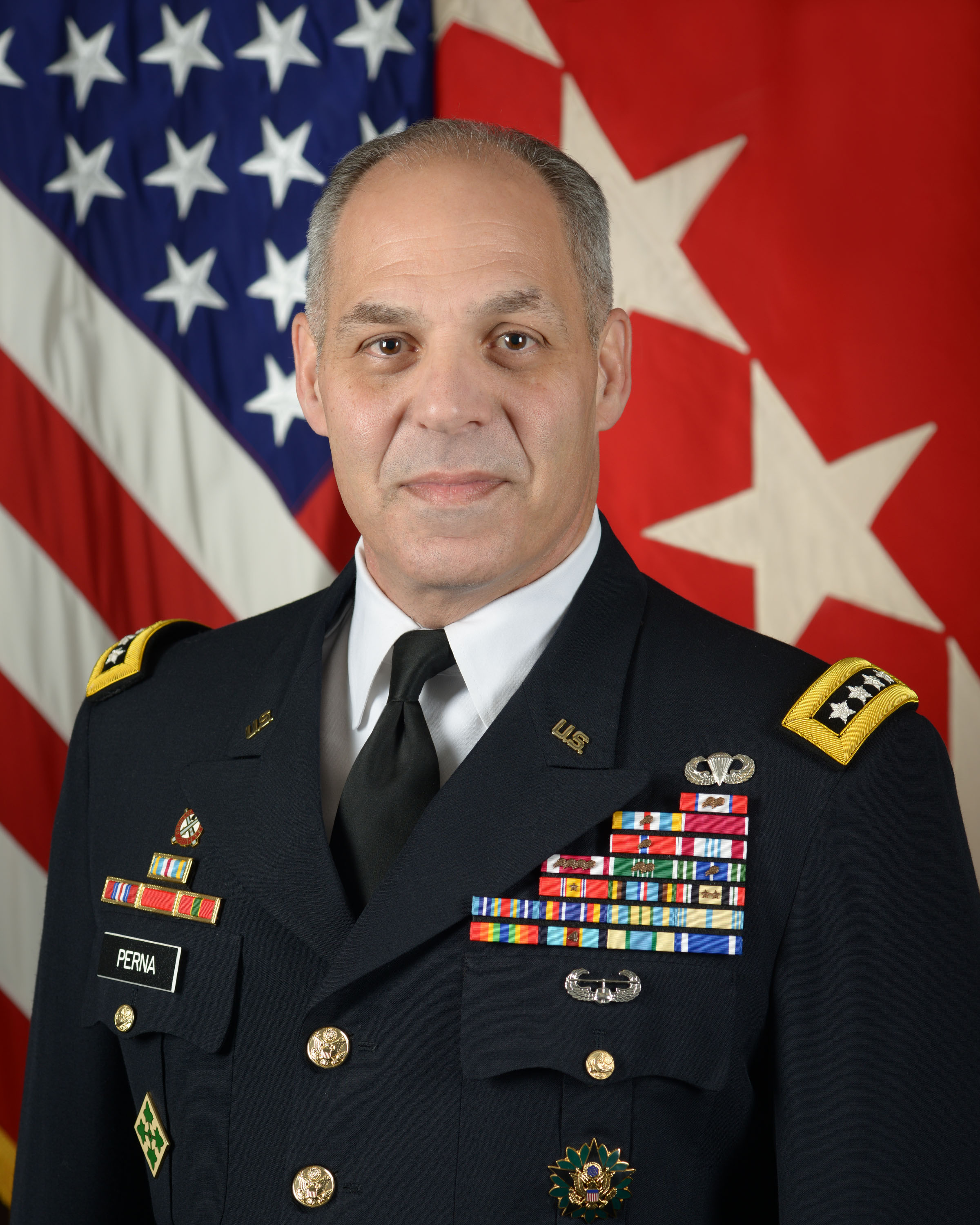 Gen. Gustave F. Perna, Commanding General of U.S. Army Materiel Command, Redstone Arsenal, AL, poses for a command portrait in the Army portrait studio at the Pentagon in Arlington, VA, Sept. 20, 2016. (U.S. Army photo by Monica King/Released)